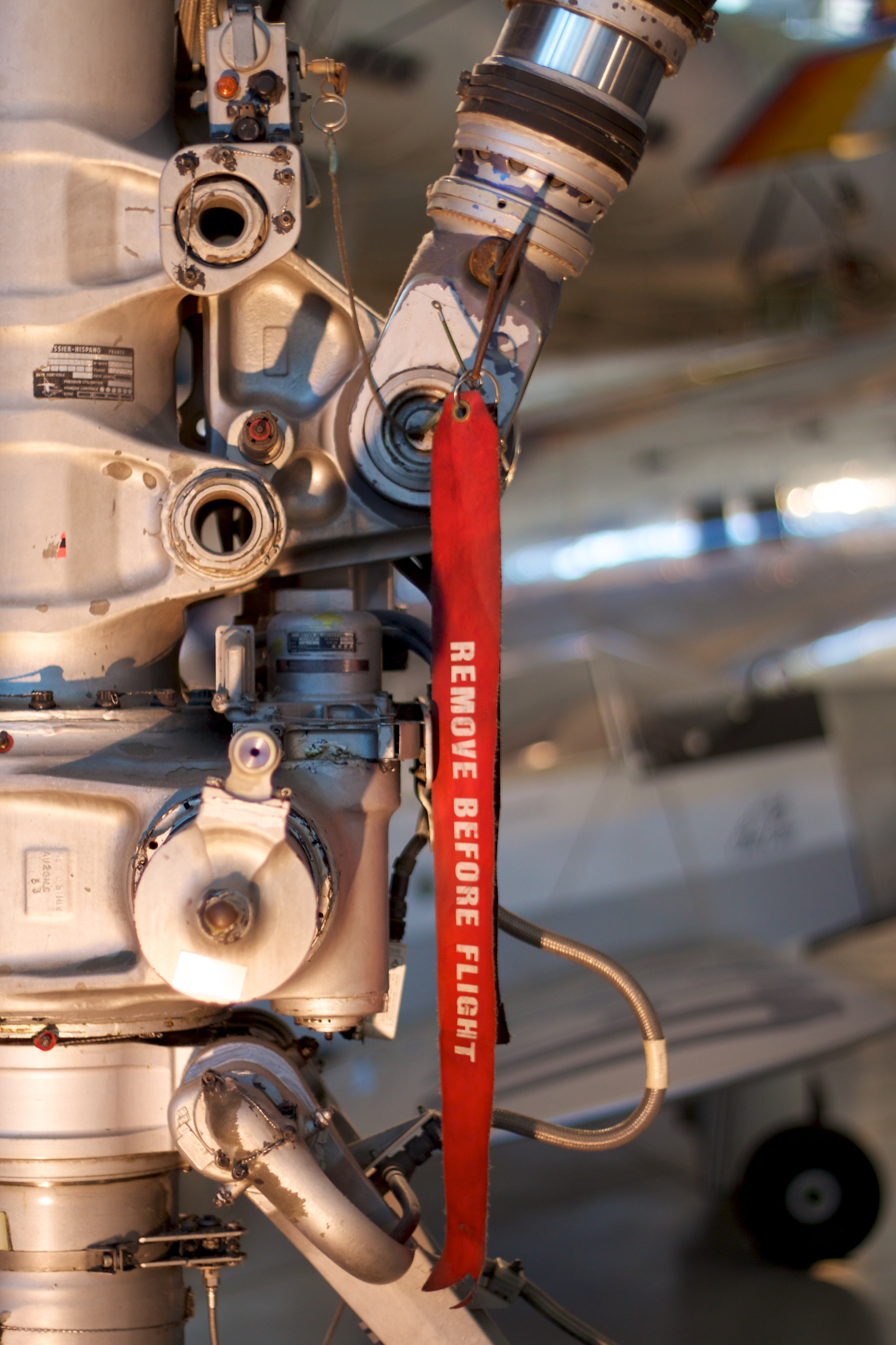 'Remove before flight' tag on Concorde F-BVFA, at the National Air and Space Museum Udvar-Hazy Center, Chantilly, VA.